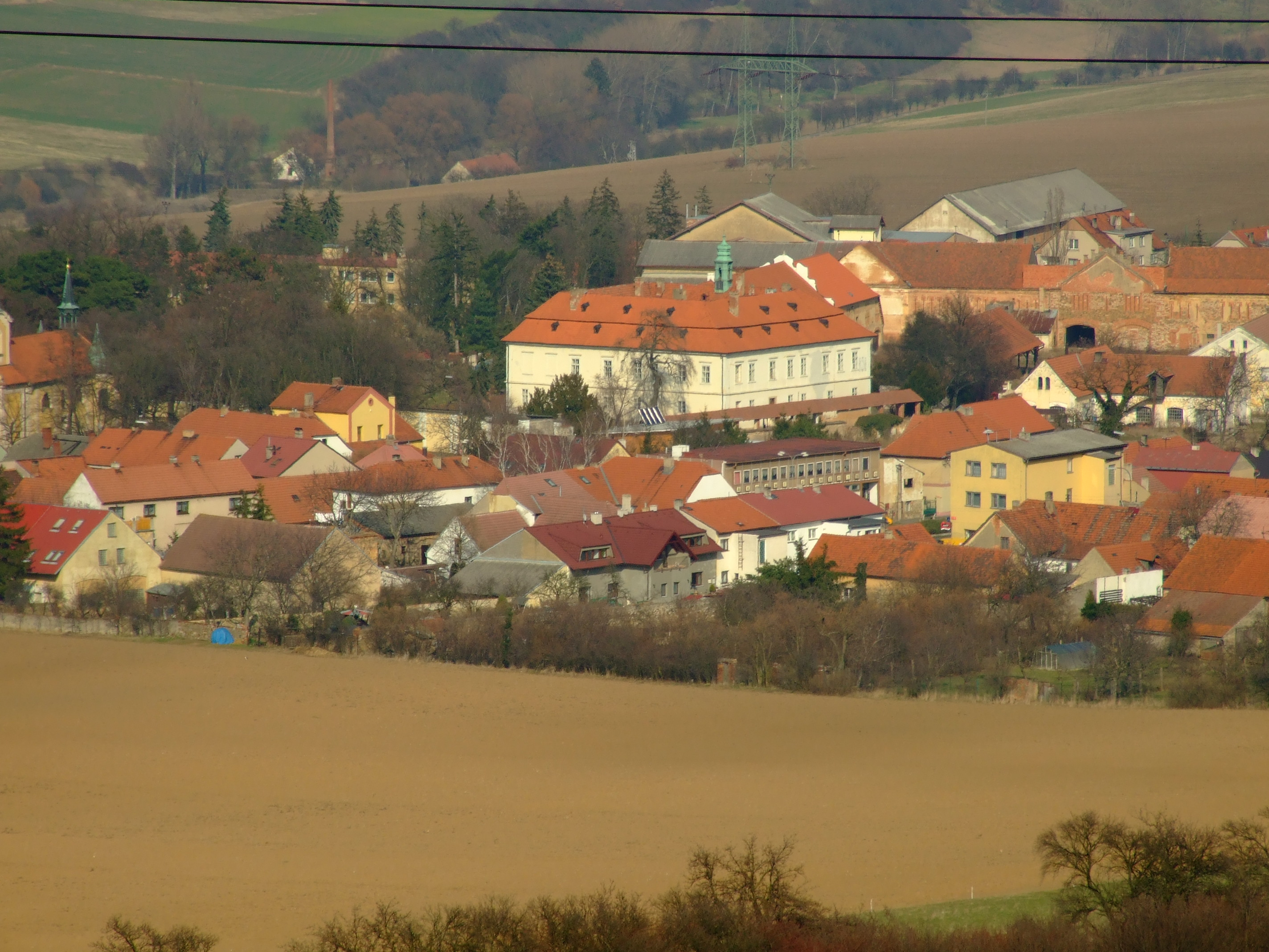 Liteň, Beroun District, Central Bohemian Region, Czech Republic.